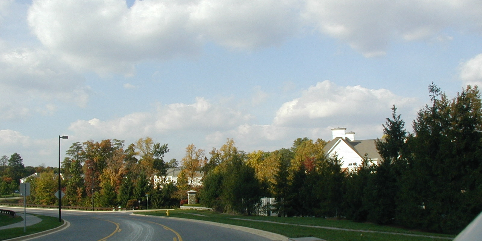 Skyline of Russett, Maryland from Ridgemere Crossing